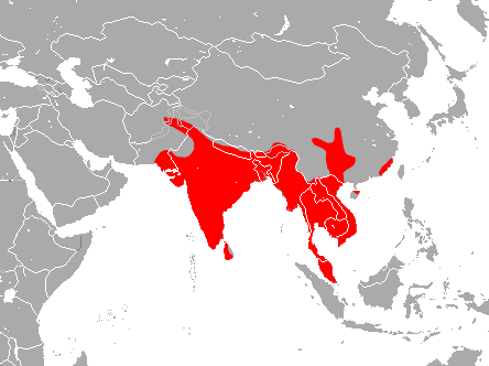 Greater False Vampire (Megaderma lyra) range